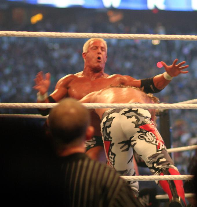 Edge spearing Mr. Kennedy